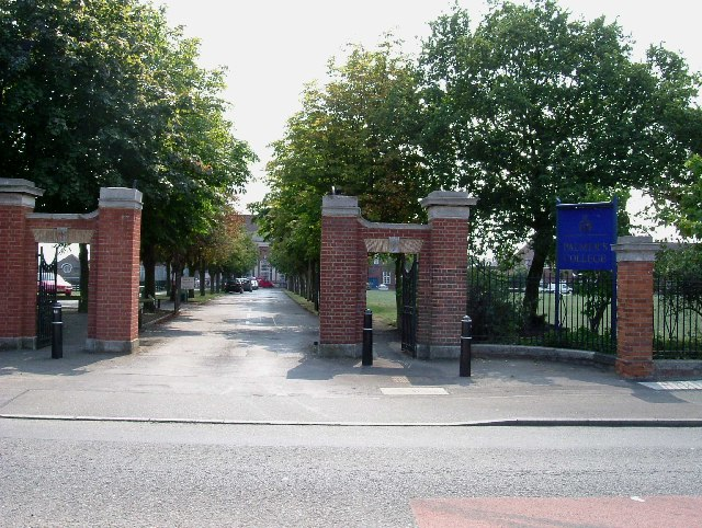 Palmers College. Palmers College was founded in 1706 by William Palmer as a school for the poor to teach the 3R's accounting and Latin. It has been a sixth form college since 1971.